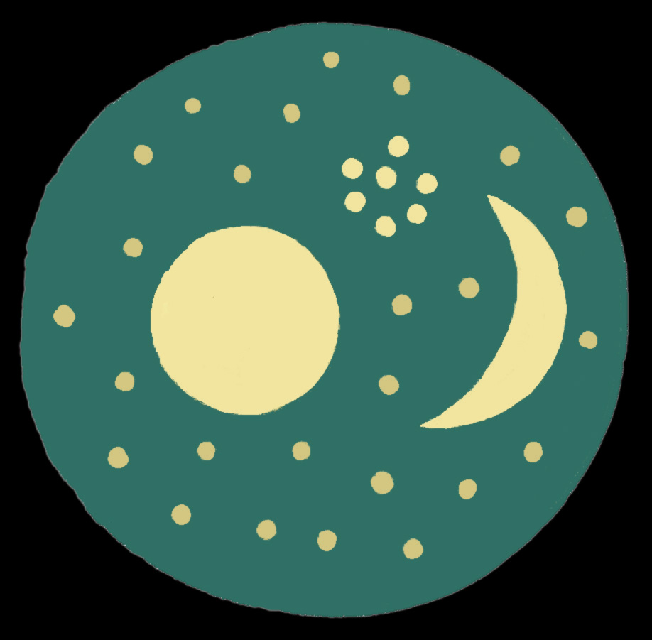 Nebra skydisc, earliest state (simplified depiction).